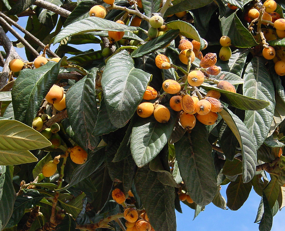 Loquat. Photo taken in Gran Canaria.